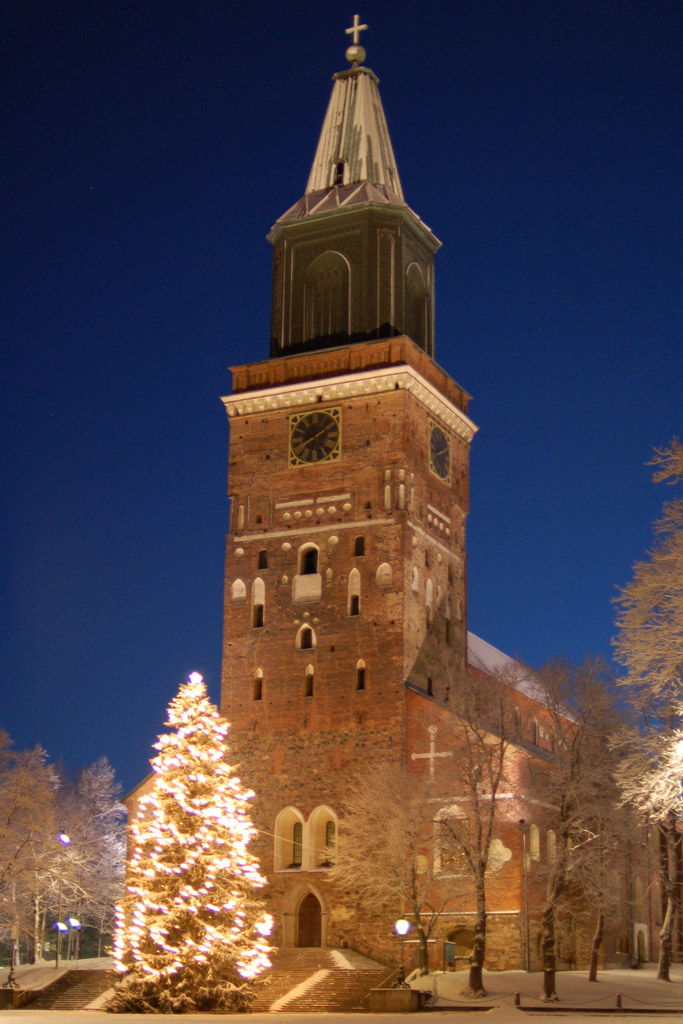 On my way to work. Fun to see snow once in a while... (two other people took the same scene simultaneously, suppose they took stock footage).December morning